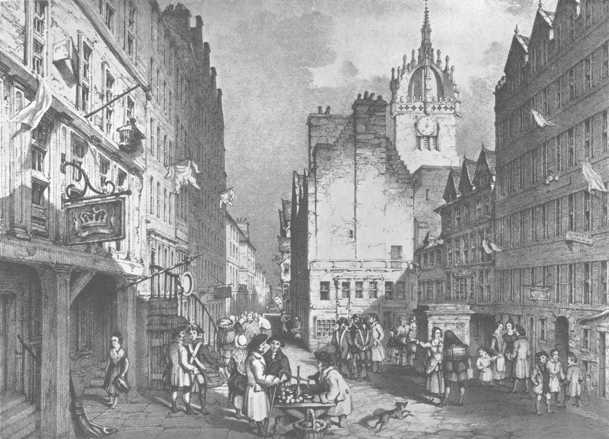 A mid-19thC depiction of the High Street of Edinburgh in the 18th century with the 'Heart of Midlothian', the old town tolbooth and its railed-in execution platform, centre right. Note the members of the Town Guard, one below the barber-surgeon's pole with bleeding bowl on the left, two conversing with gentlemen on 'the croon o' the causey' (middle of the street), and two in the distance beside the tolbooth. Beyond the forestair on the left can be seen a Newhaven or Musselburgh fishwife with a fish-creel (basket) on her back. A child, lower left, carries a water-jug from the Lawnmarket Well seen on the right, before which stands a 'cadie' (all-purpose hireling), employed as a 'waterman', with a water-barrel on his back.